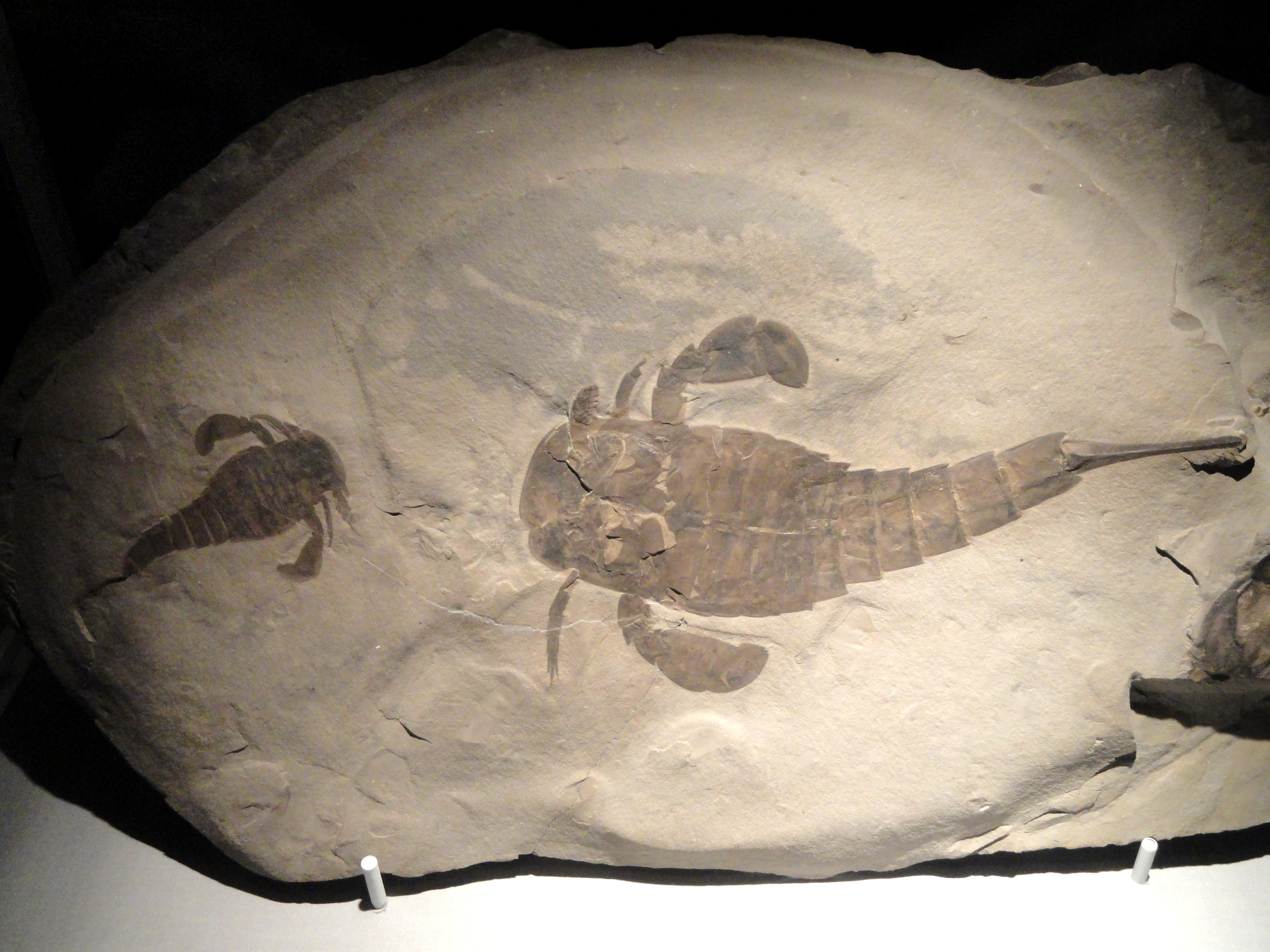 Exhibit in the Houston Museum of Natural Science, Houston, Texas, USA.